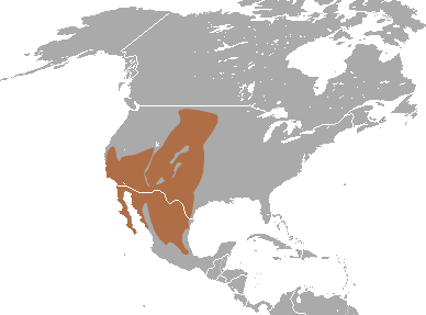 Desert Cottontail (Sylvilagus audubonii) range